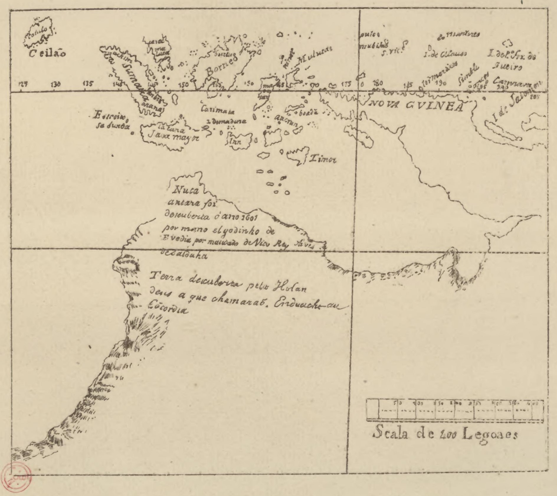 Map of East India and Southern India. Showing the Nuca antara (also known as Nusantara, Lucaantara, or Luca antara) as the peninsular region of Australia. At the most northerly point, south of Java mayor , there is a legend Nuca antara foi discuberta o ano 1601 por mano el godinho de Evedia por mandado de Vico Rey Alnes de Saldaha; Nuca Antara was discovered in the year 1601 by Manoel Godinho de Eredia, by command of the Viceroy Ayres de SaldanhaBeneath this, about half way down the western coast, there is another legend Terra discuberta pelos Holandeses a que chamarao, Enduacht, au cocordia; “Land discovered by the Dutch, which they called Endracht or Concord.